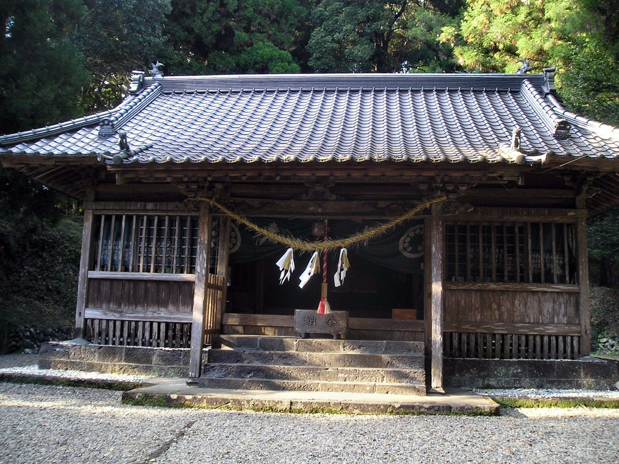 Mikado Shrine Honden or Main shrine, Misato Town, Miyazaki, Japan